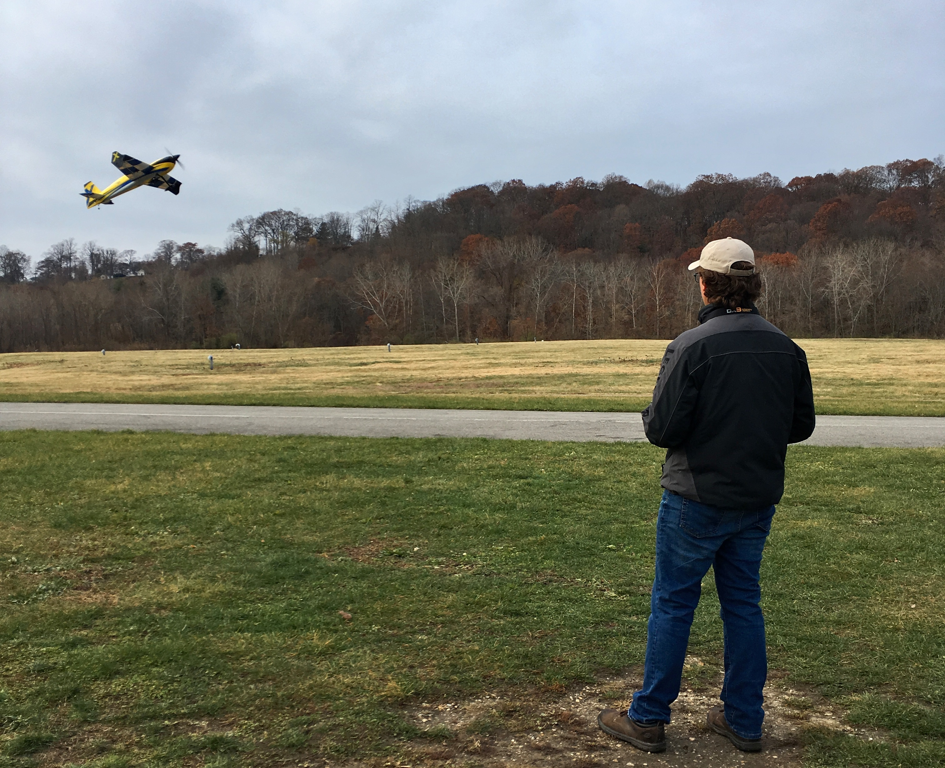 Hobbyist demonstrating the harrier with an Extreme Flight 74" Slick, a radio-controlled airplane, at the HHAMS Aerodrome.